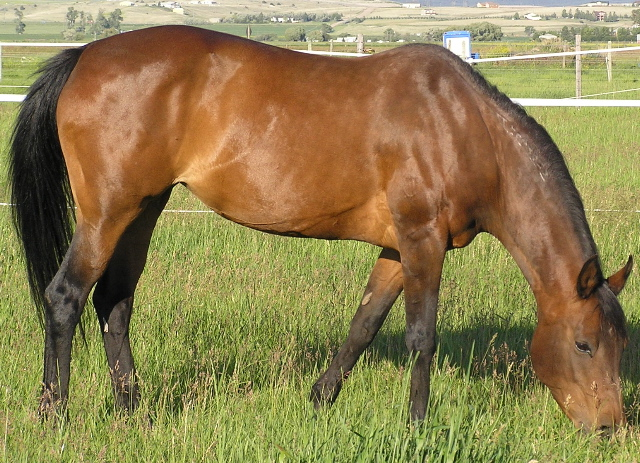 Description: Photo of a bay-colored 3/4 Arabian mare. Freeze brand with first symbol a sideways "A" indicates partbred ancestry. Author: Montanabw Source: Own work Date: Summer 2006